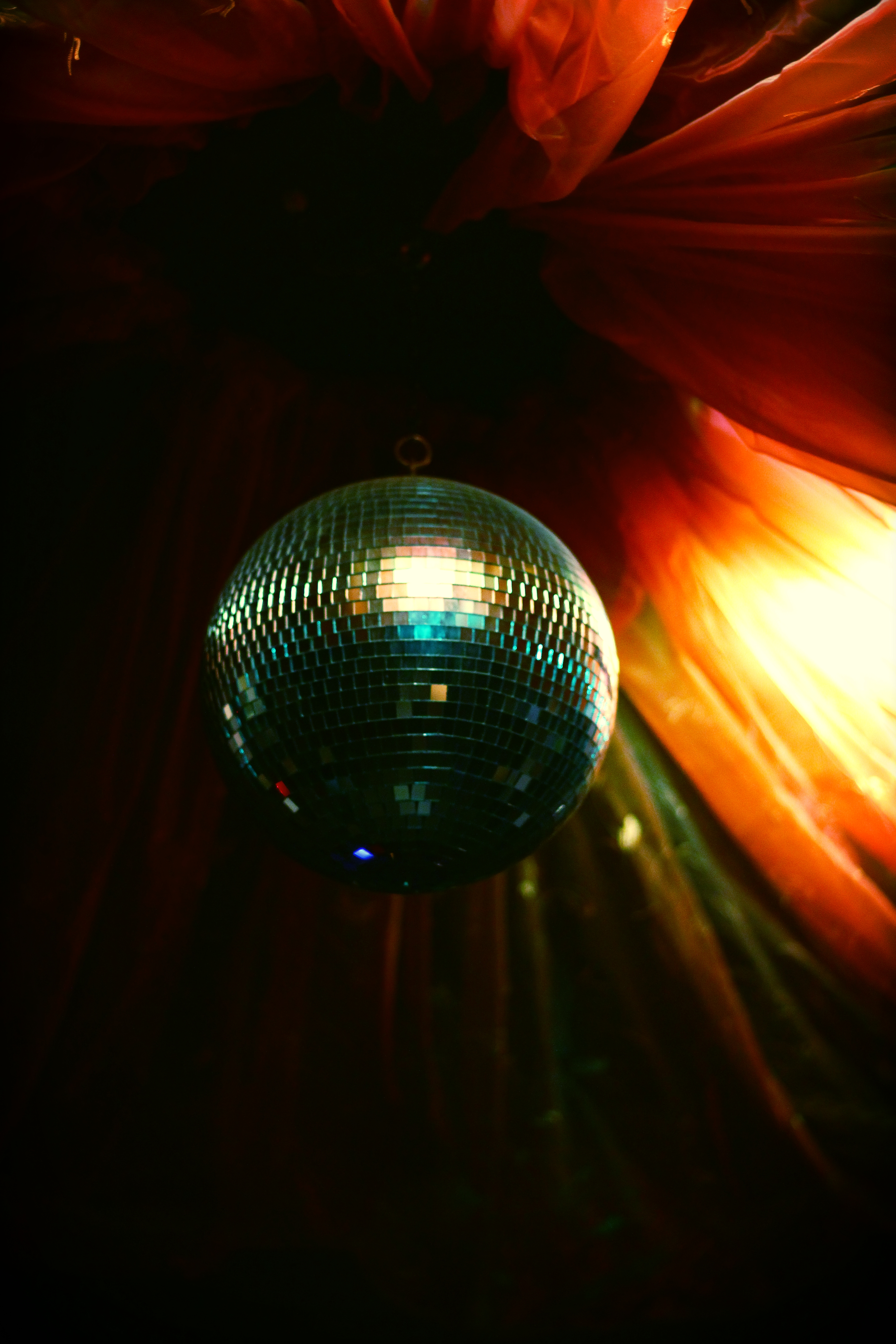 Photo take of a Disco Ball